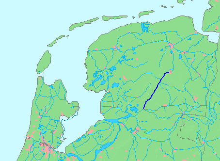 Location of a waterway (river/canal) in the Netherlends